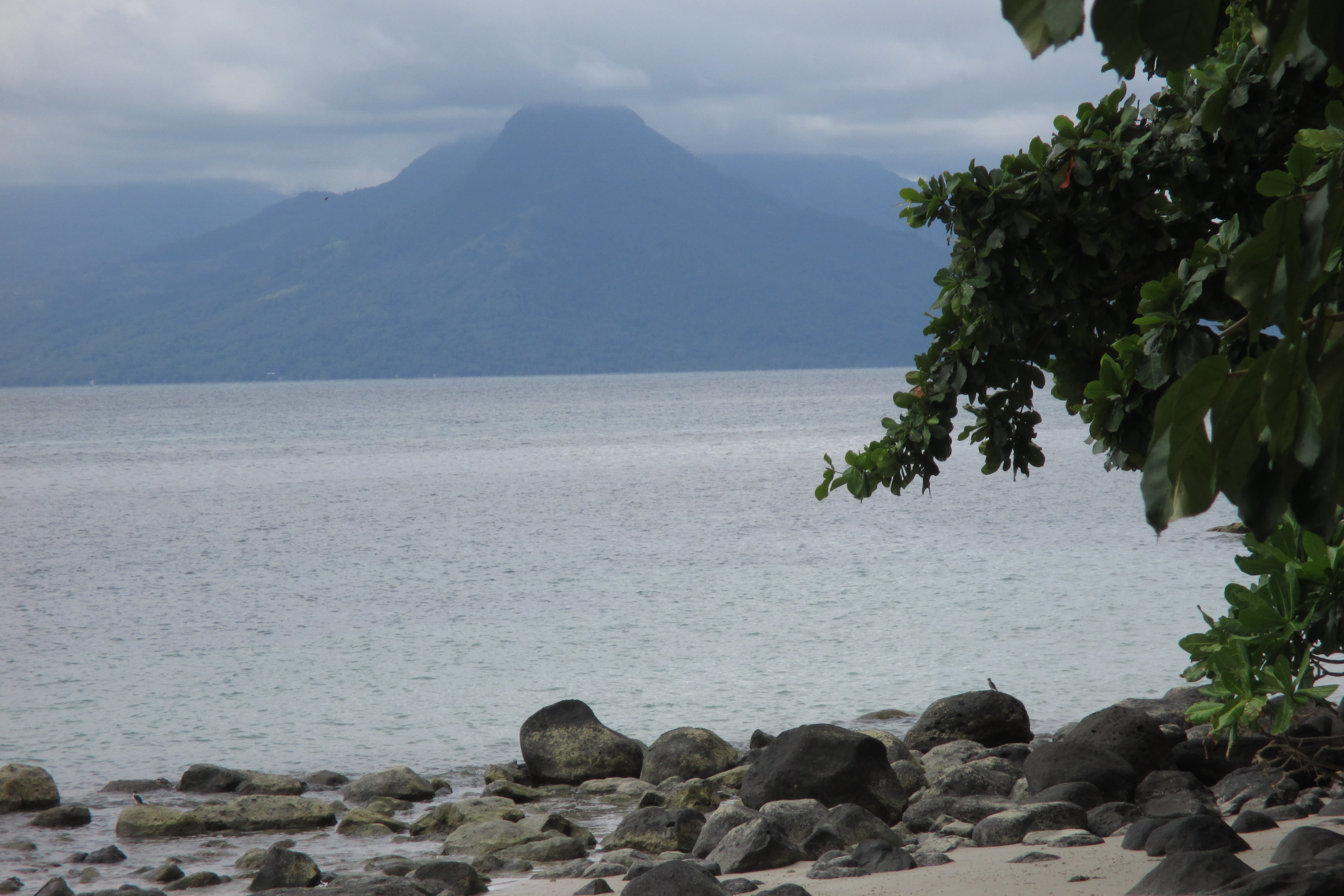 A typical home in Barangay Mangga, Sugbongcogon